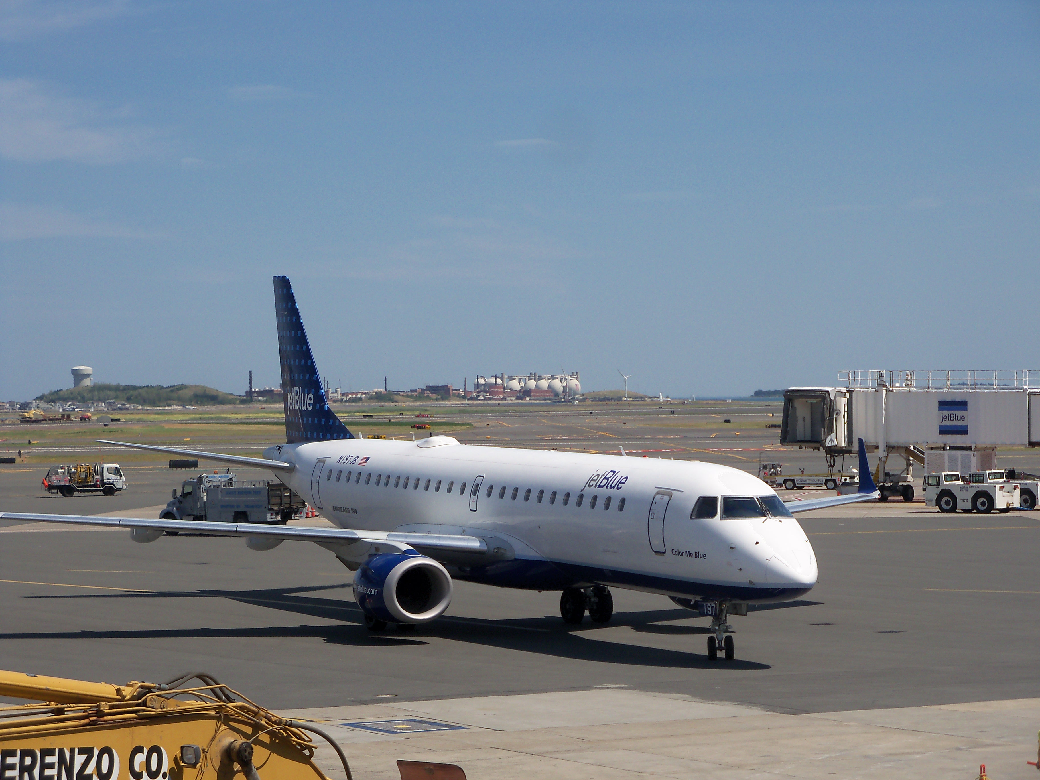 Picture taken in July 2010 in Boston Logan International Airport.